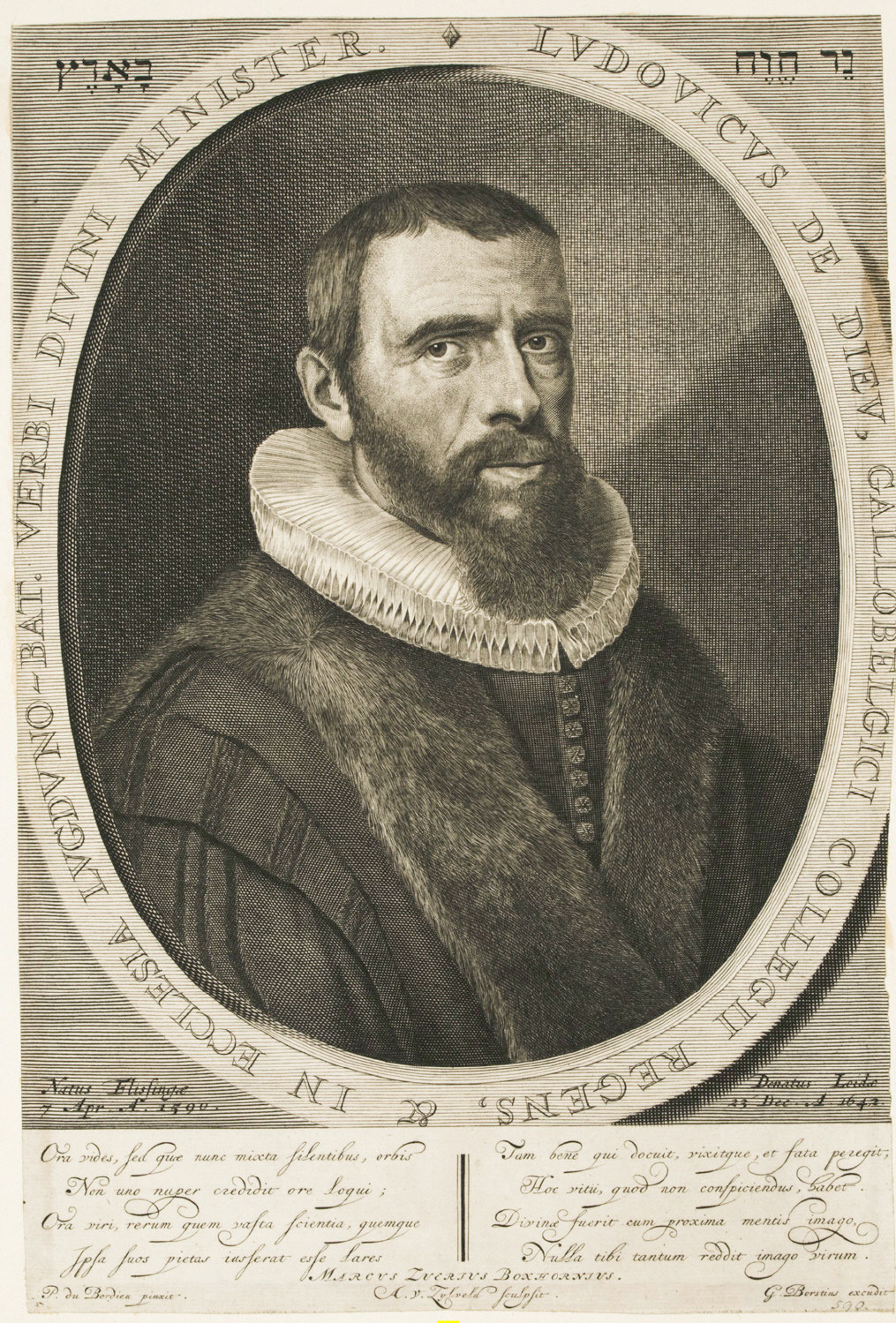 Ludovicus de Dieu engraving 29.7 x 19.8 cm late 17th century